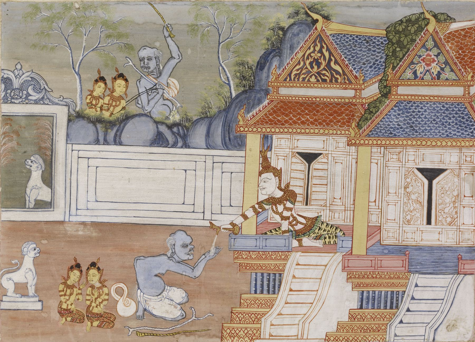 Jujaka visits Vessantara in his cottage in the forest and asks for the children. Vessantara is pleased to be able to help the brahmin with his request and immediately gives away his two children, Jali and Kanha. Again, we see the exchange depicted with the pouring of water onto Jujaka's hands. As the children leave with him, Jujaka ties their hands together and beats them with a stick.